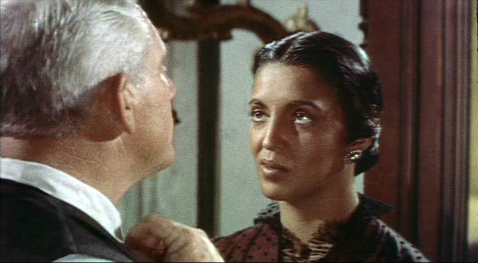 Spencer Tracy and Katy Jurado in a screenshot from the trailer for the film Broken Lance.